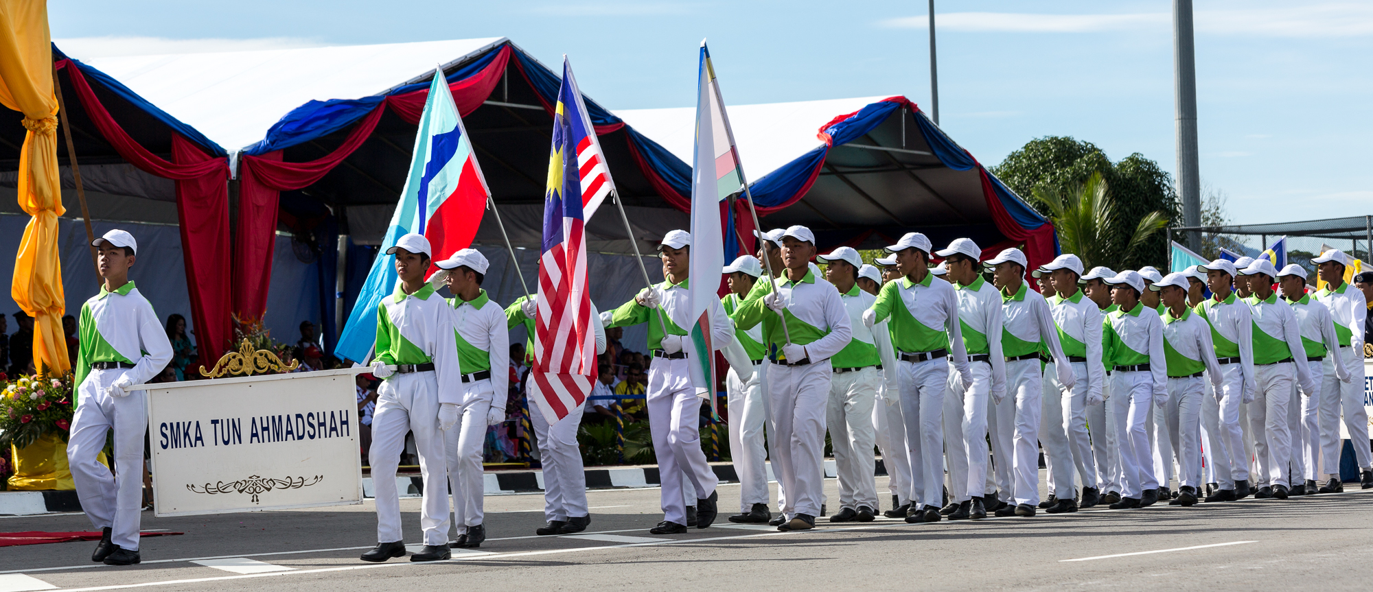 Kota Kinabalu, Sabah, Malaysia: Parade during Celebrations of Hari Merdeka 2013 in Likas on August 31, 2013